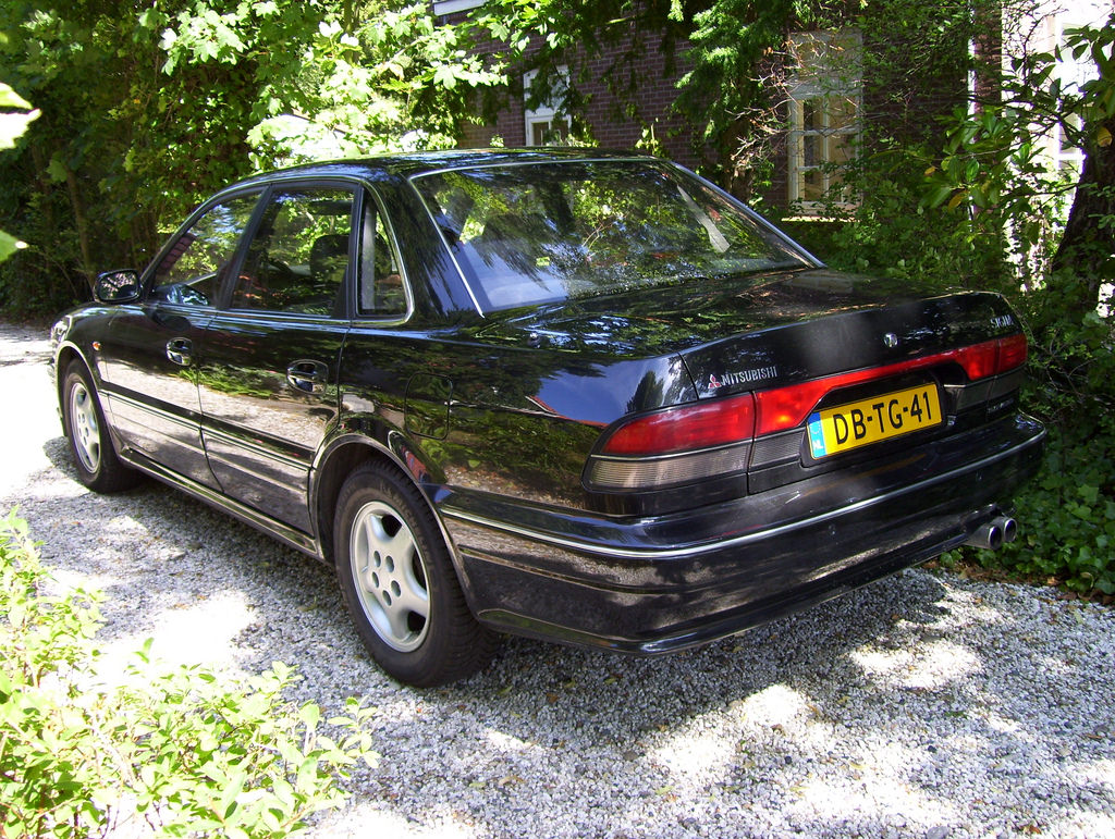 Mitsubishi Sigma 3.0 DOHC, achterzijde